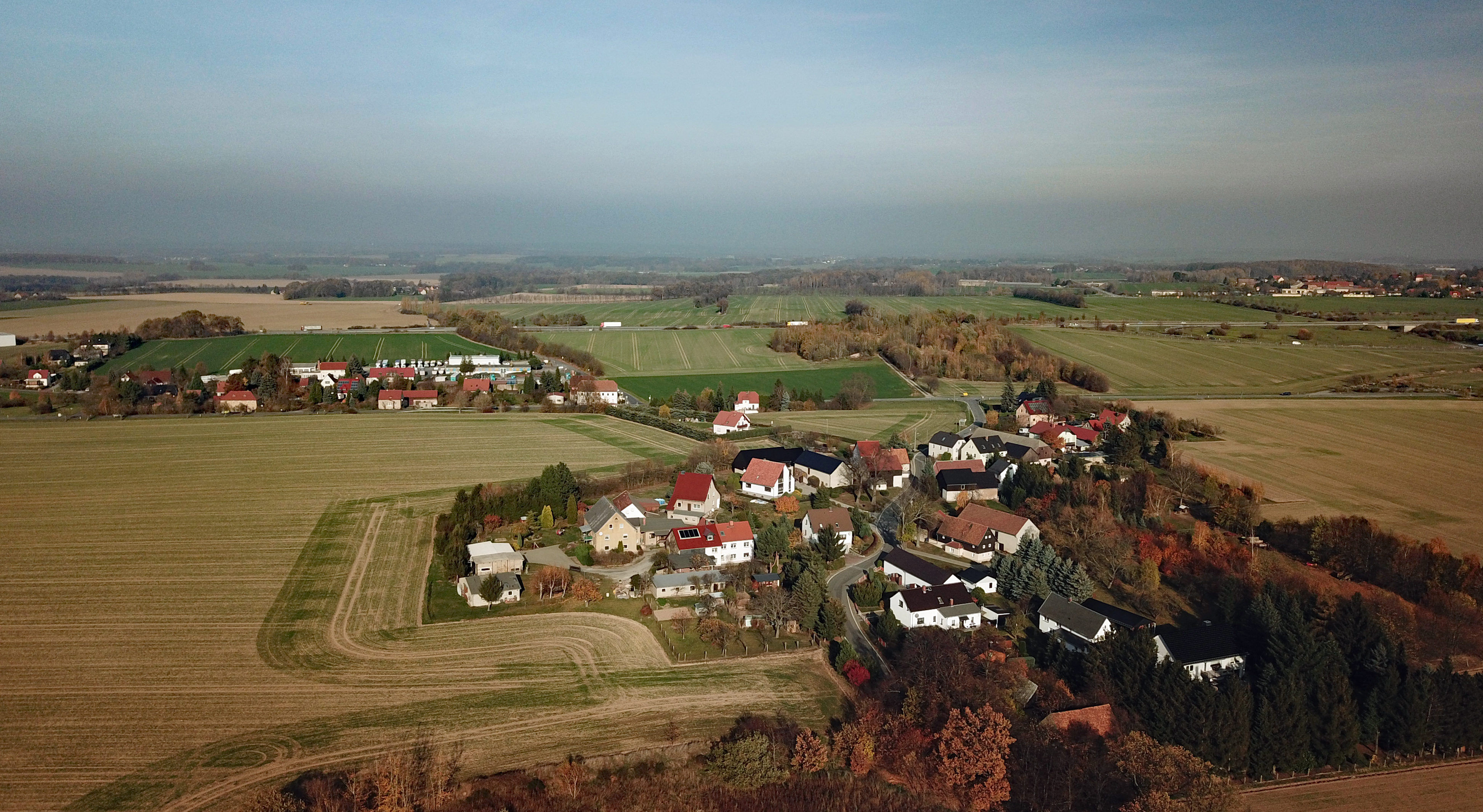 Bloaschütz (Bautzen, Saxony, Germany) Hornjoserbsce: Powětrowy wobraz Błohašec